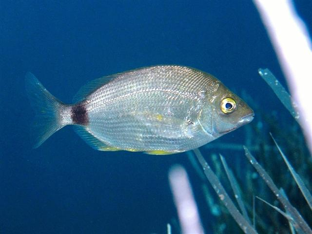 Diplodus annularis photographed in Minorca.